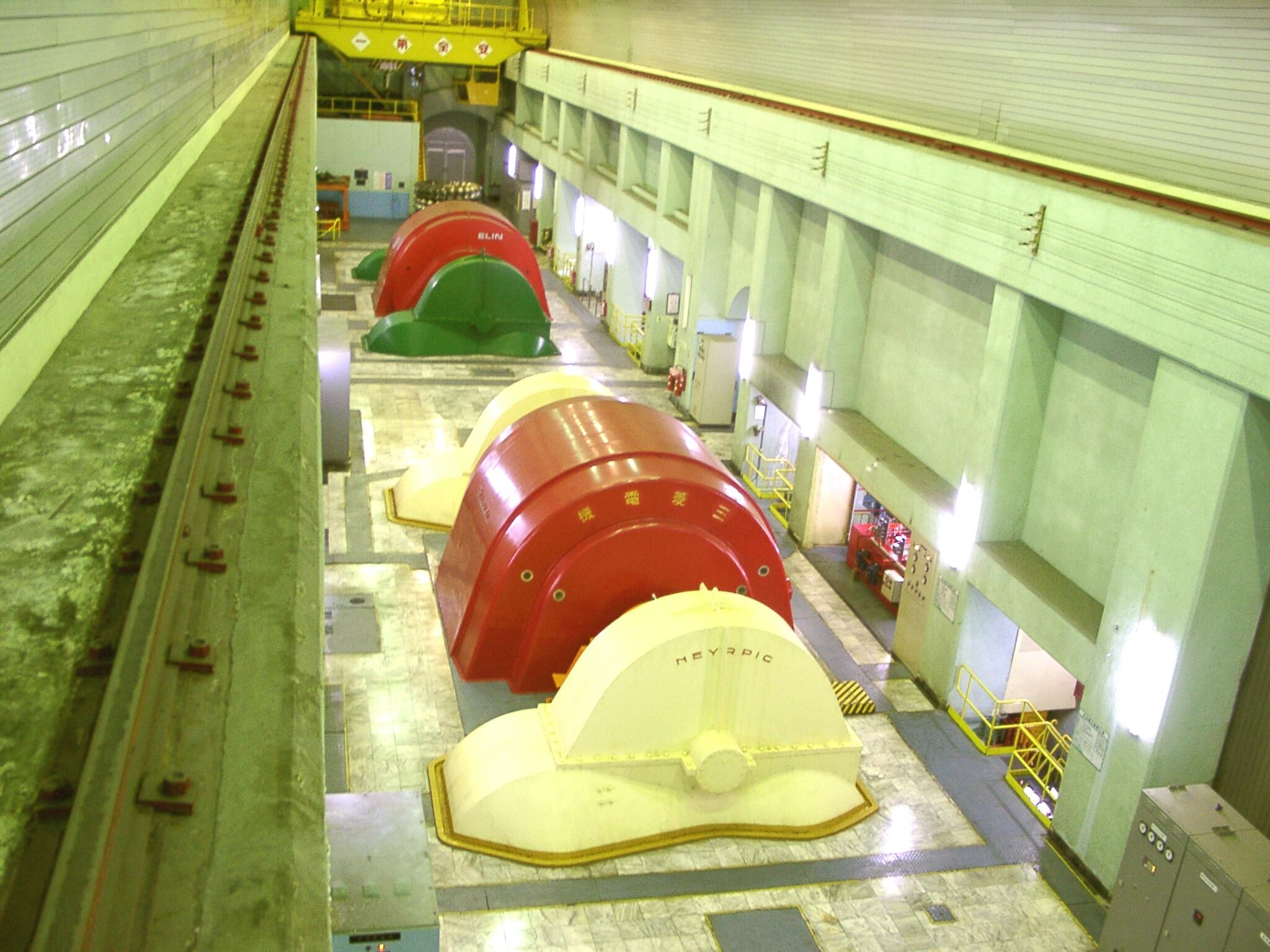 Taiwan power Company The Eastern Power plant Long-Jan Hydroelectricity